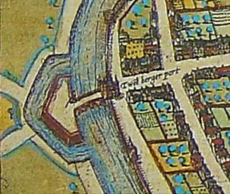 from Urbium praecipuarum totius mundi, map of Maastricht in 1581, Braun en Hogenberg